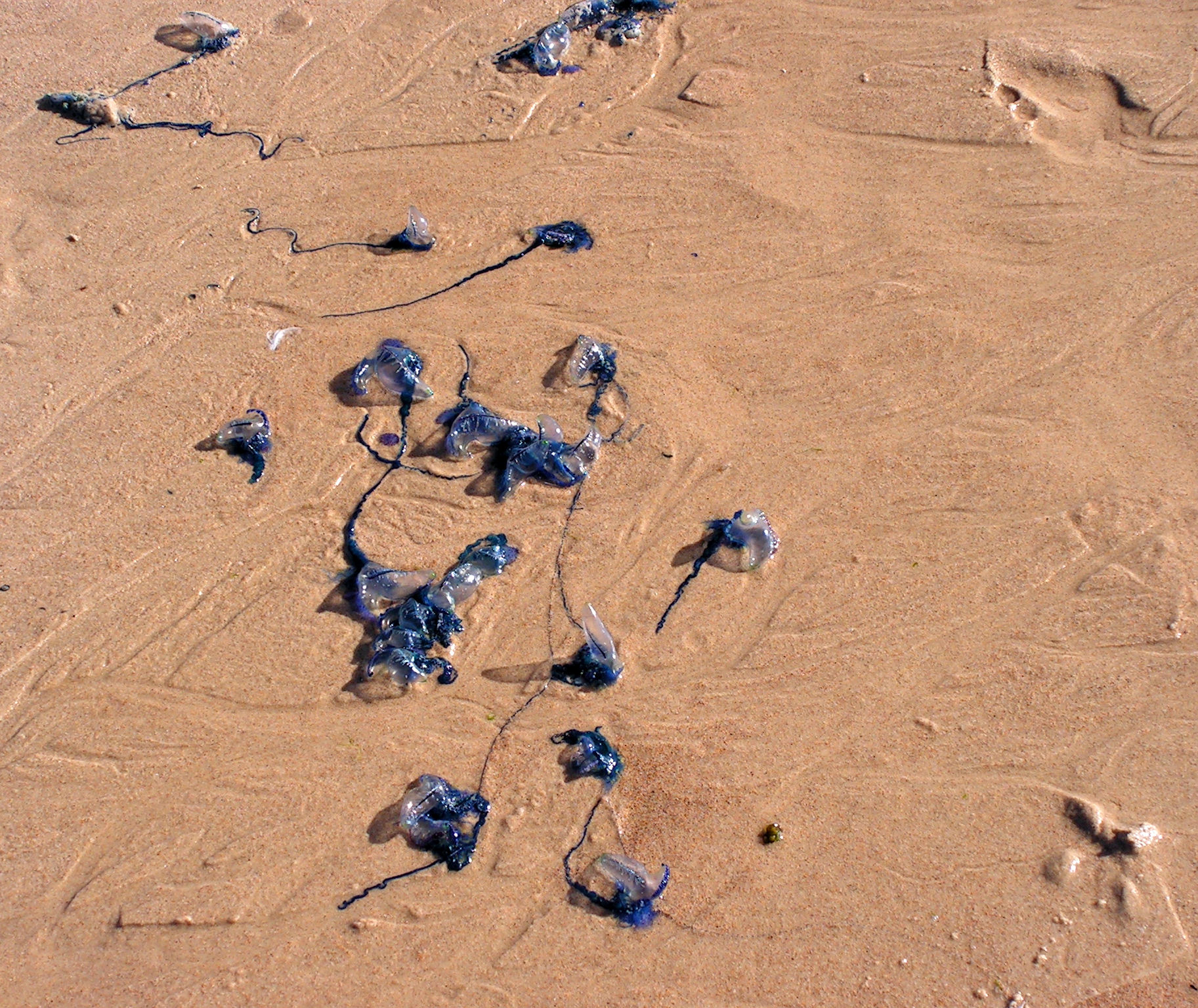 Indo-Pacific Portuguese Men o' War (Physalia utriculus), washed up on Maroubra Beach, NSW, Australia